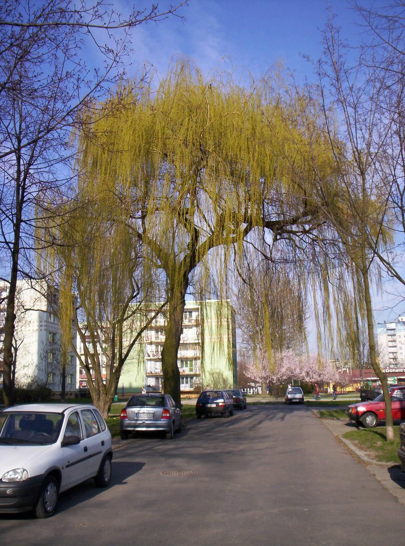 Hufcowa, a district (osiedle) of Łódź, Poland.